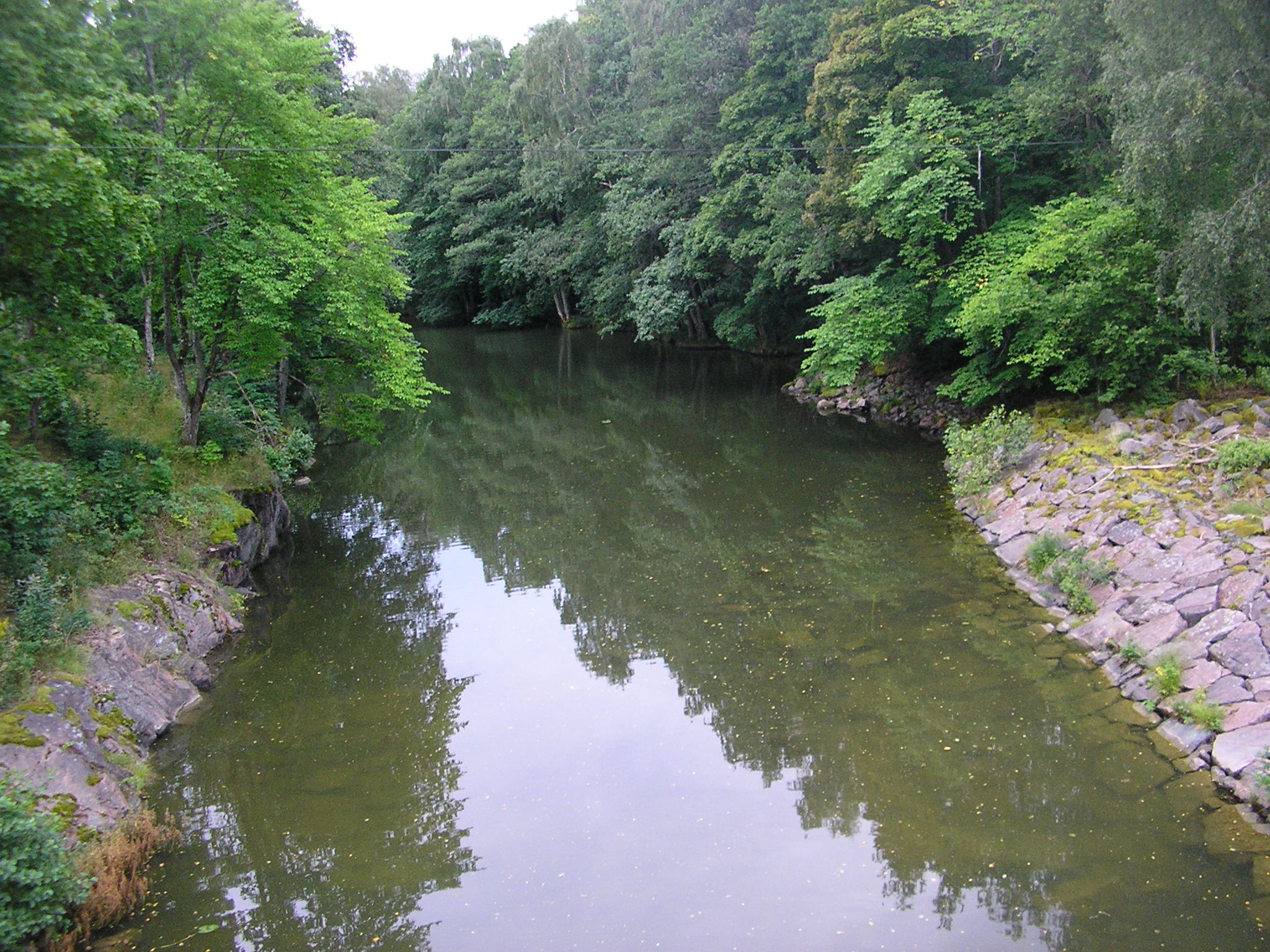 The old sluice canal, Brinkebergskulle.